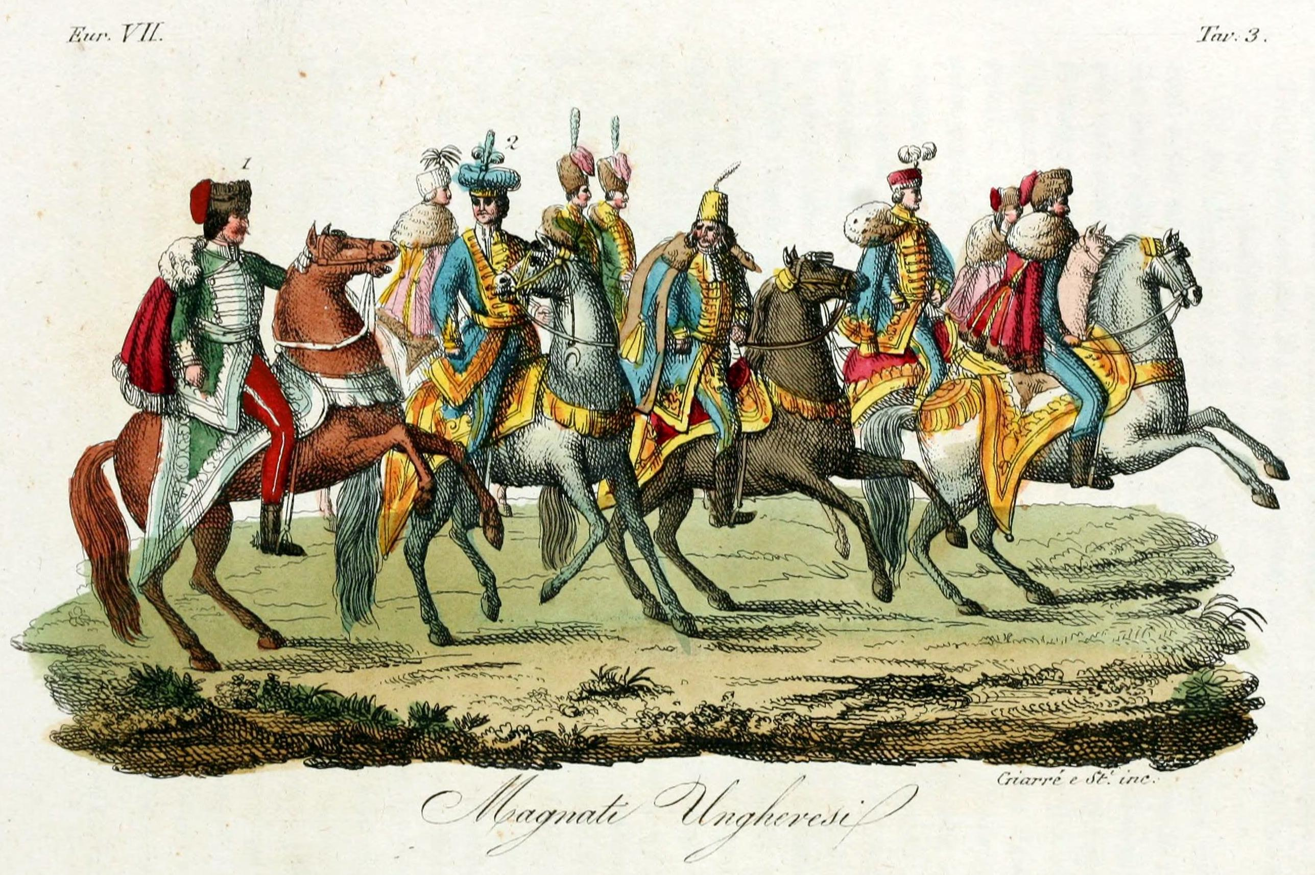 The official cortege of hungarian noblemen for an hypothetical coronation day: 1. Knights belonging to different orders 2. Knight of the Order of St. Stephen